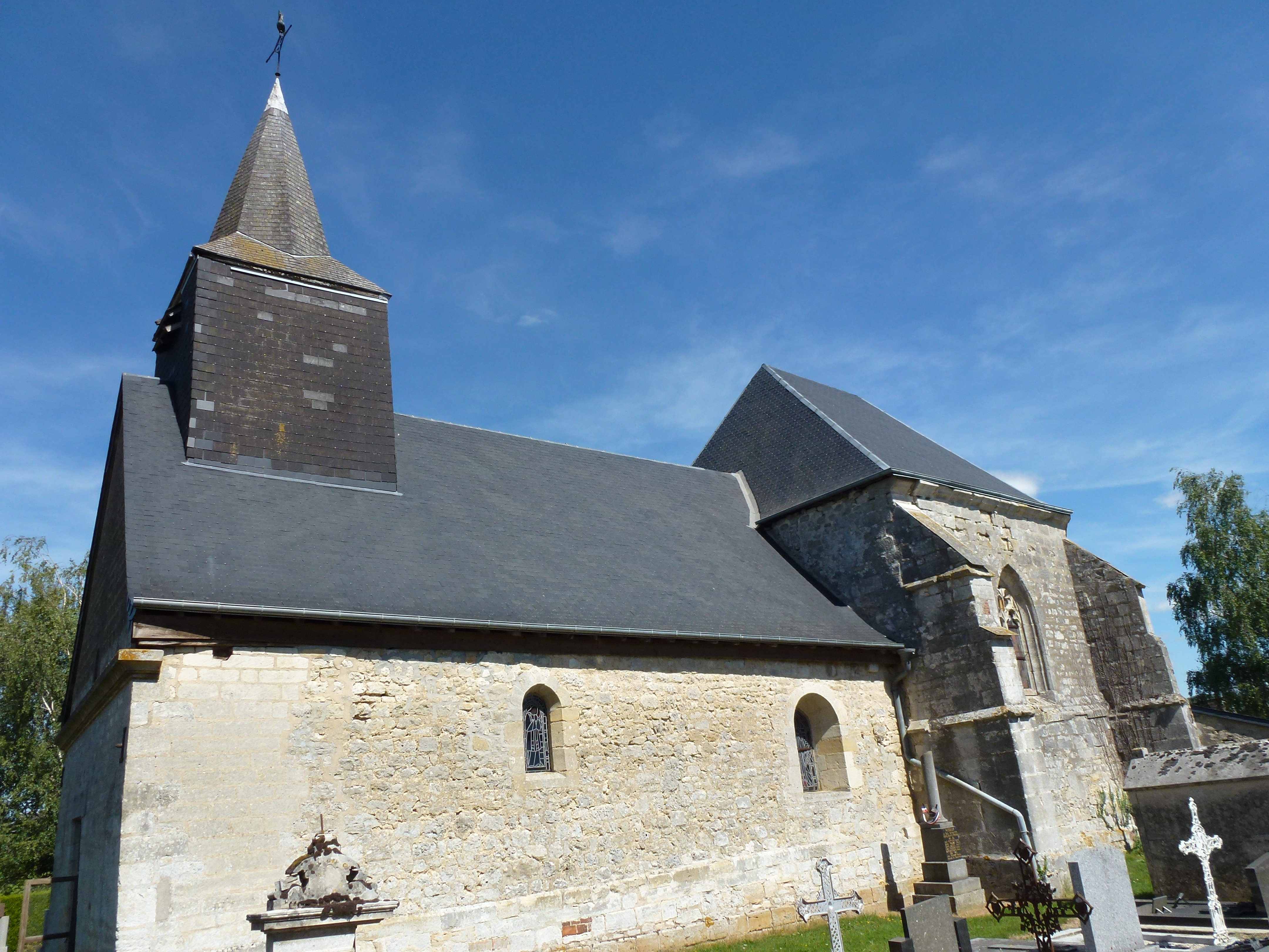 Puiseux (Ardennes) église Saint-Honoré